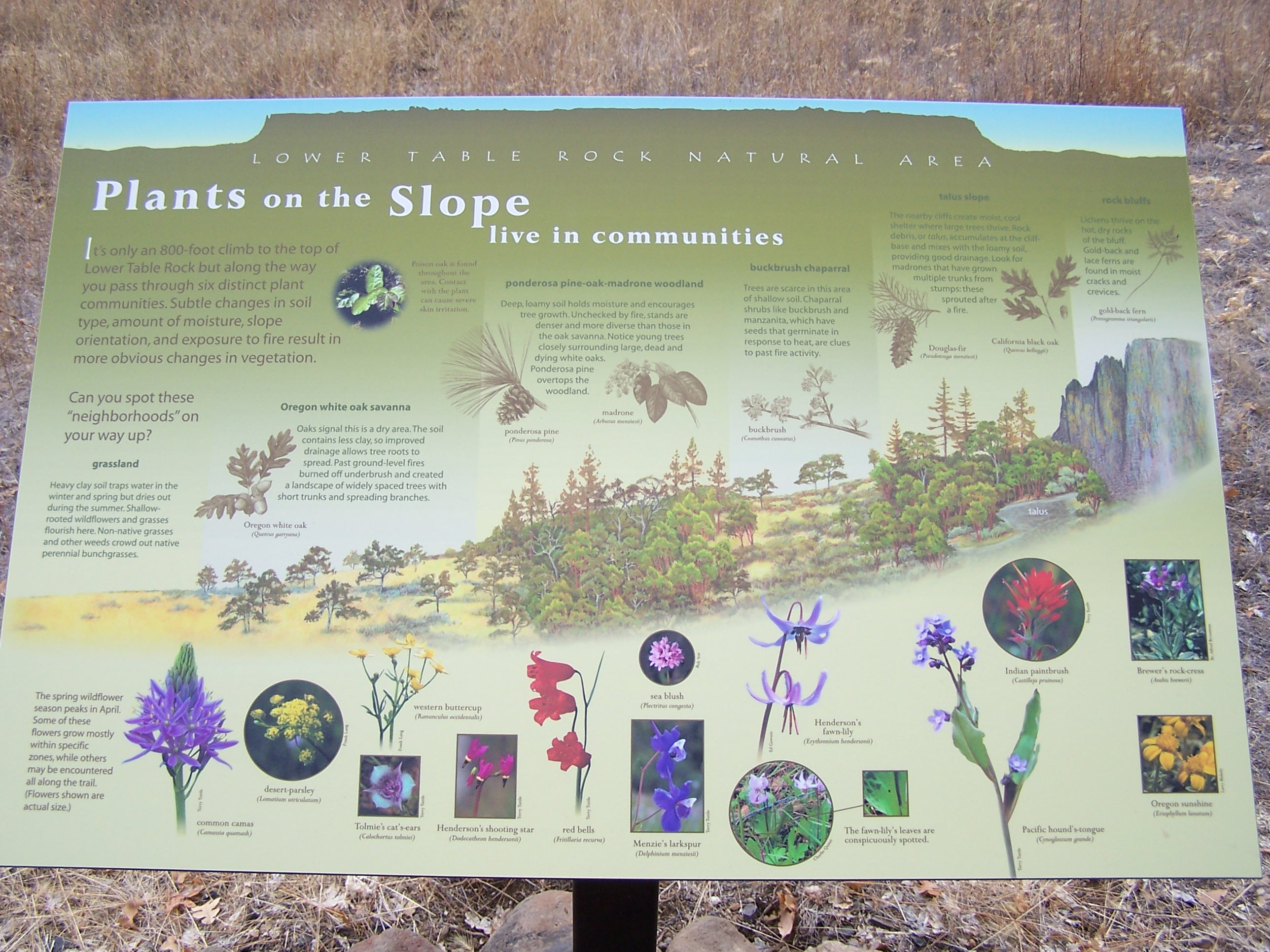 The fifth interpretive sign on the Lower Table Rock Trail.